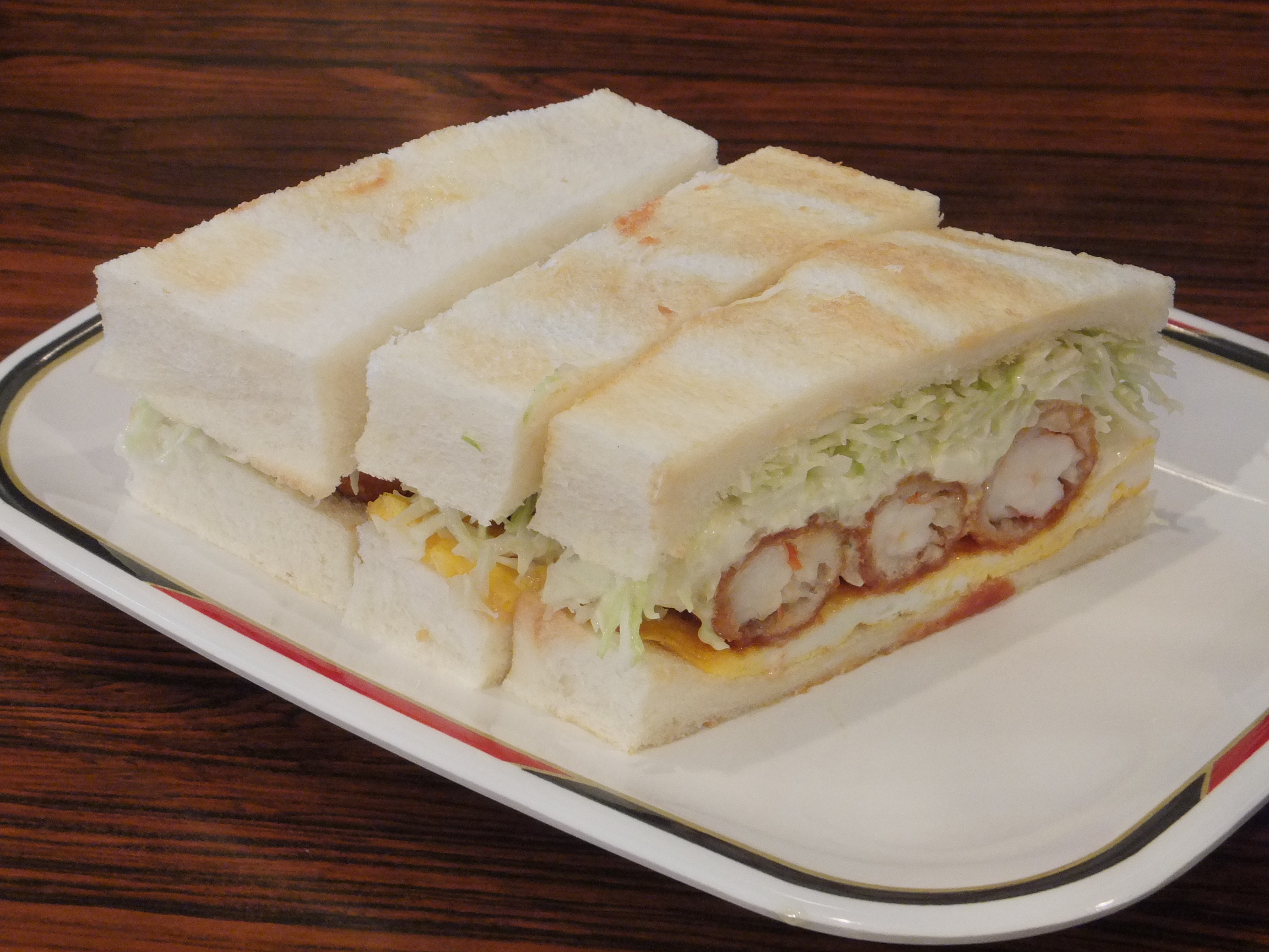 Ebifurai Sando (エビフライサンド: fried prawn sandwich), at Konparu Osu Honten